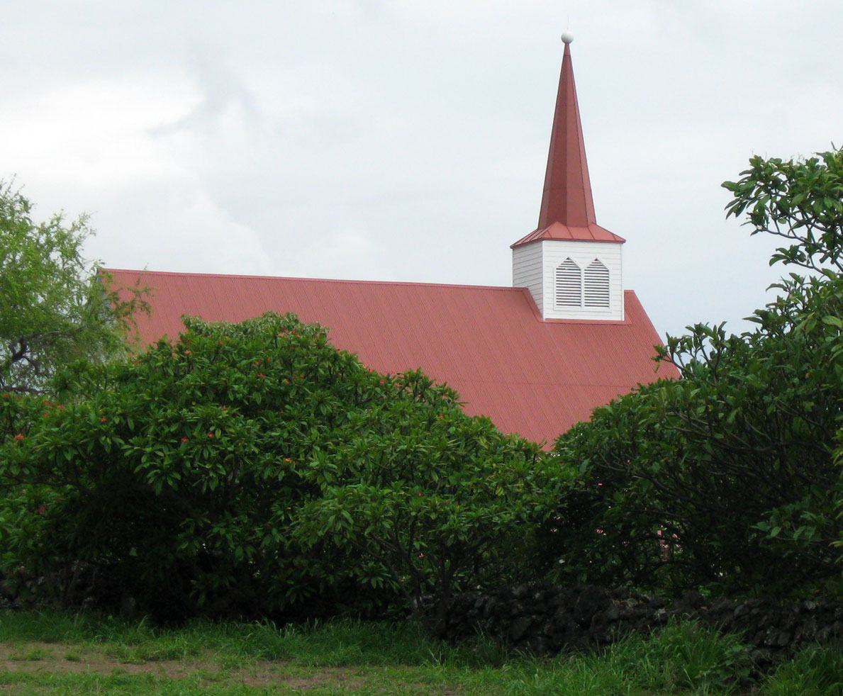 Kahikolu (trinity) church was built in 1852, on the ruins of an older church built in 1841. Rev. John D. Paris supervised the construction of this and several other historic churches in the area. It was abandoned in 1953, but rebuilt from 1982 - 1984. In 1993 the remains of early Hawaiian missionary Henry Opukahaʻia, known as Obookiah during his lifetime, (c. 1792–1818) was re-interred n the cemetery.